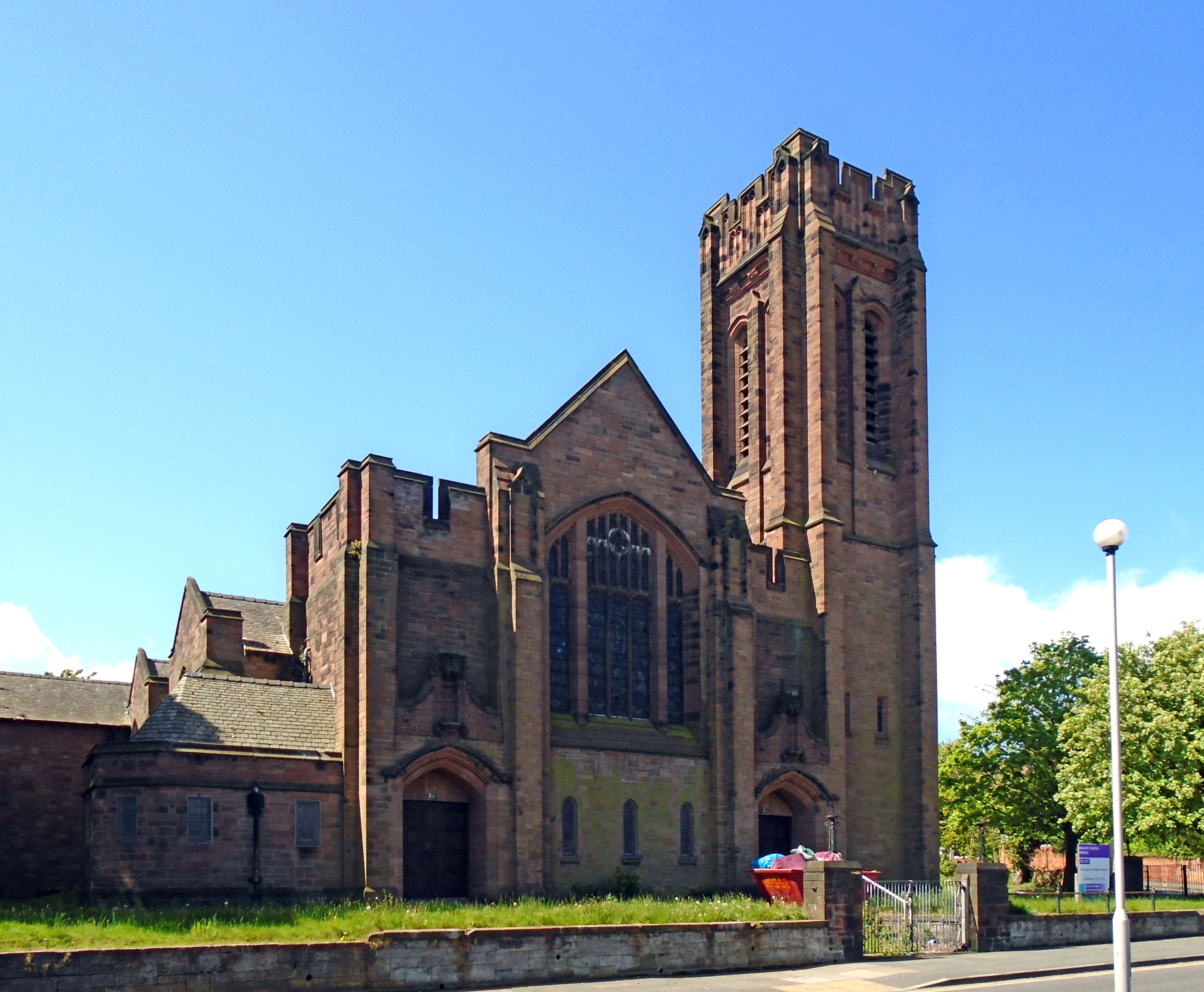 View across Seabank Road